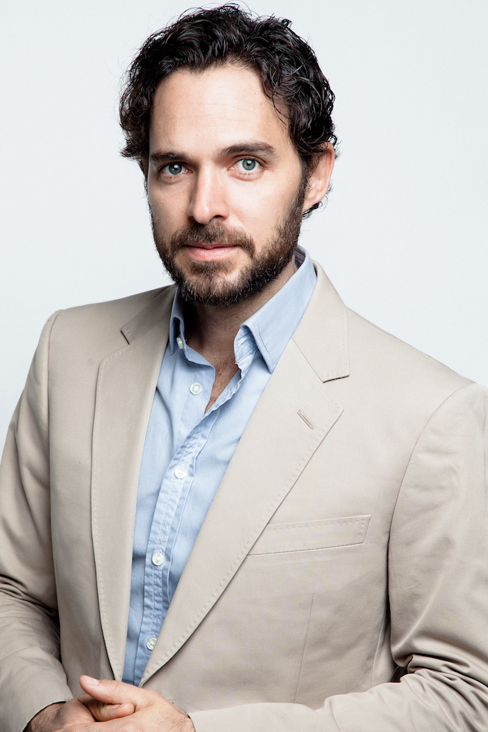 Colombian actor Manolo Cardona